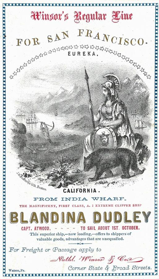 Winslow's Regular Line for San Francisco, "Blandina Dudley". Capt. Atwood, Commander. This card has been vandalised with the top and bottom cut off, taking off the name of the shipping line and the originator, the printer.